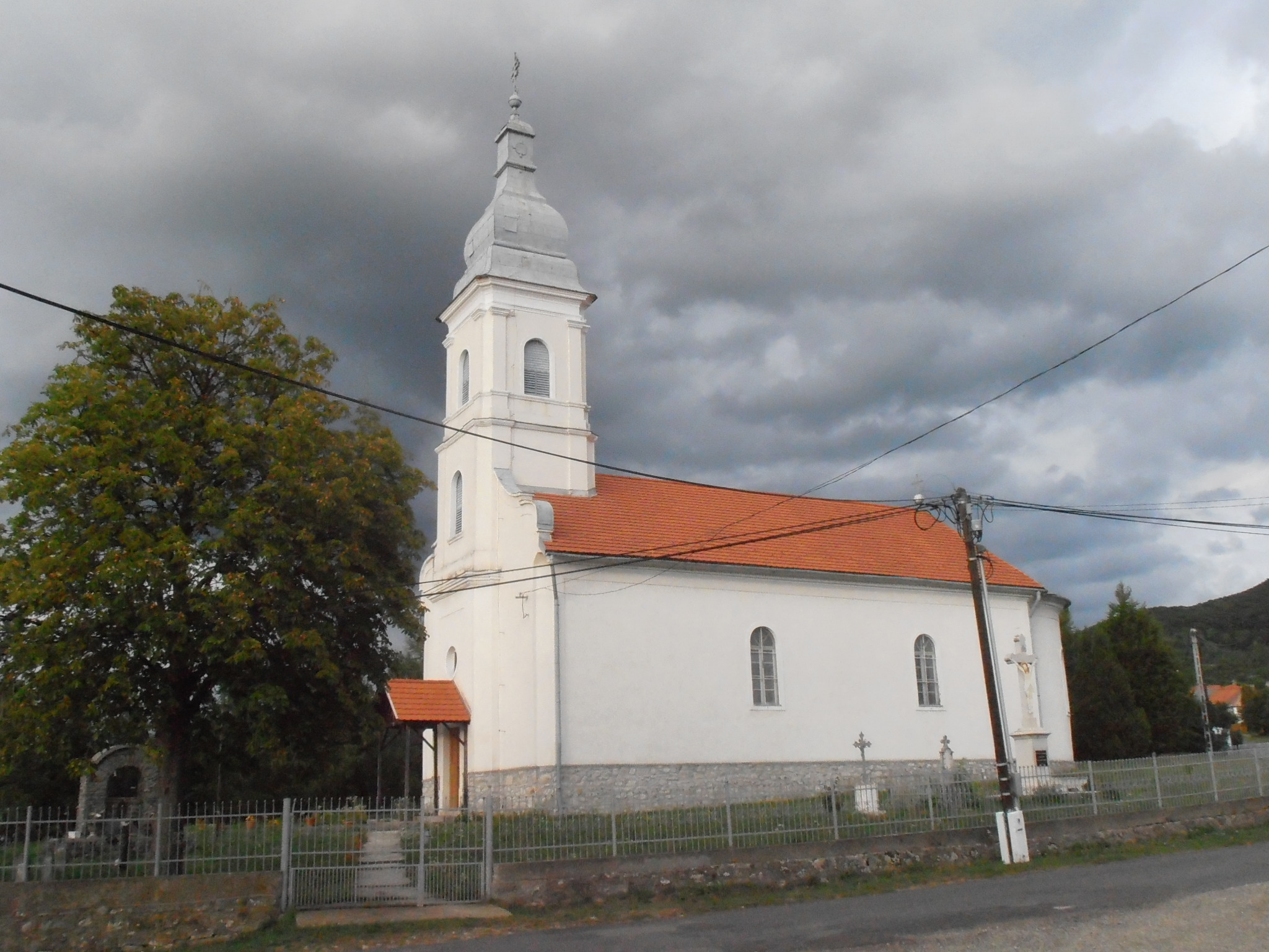 Greek Catholic Church in Mogyoróska, Hungary Mogyoróskai görög katolikus templom